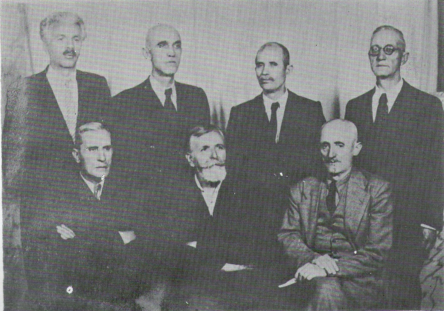 Sitting: Rizo Rizov, Krastyo Germov Alexandar Martulkov. Standing: Dimitar Popevtimov, Anastas Mitrev, Panko Brashnarov, Pavel Shatev.